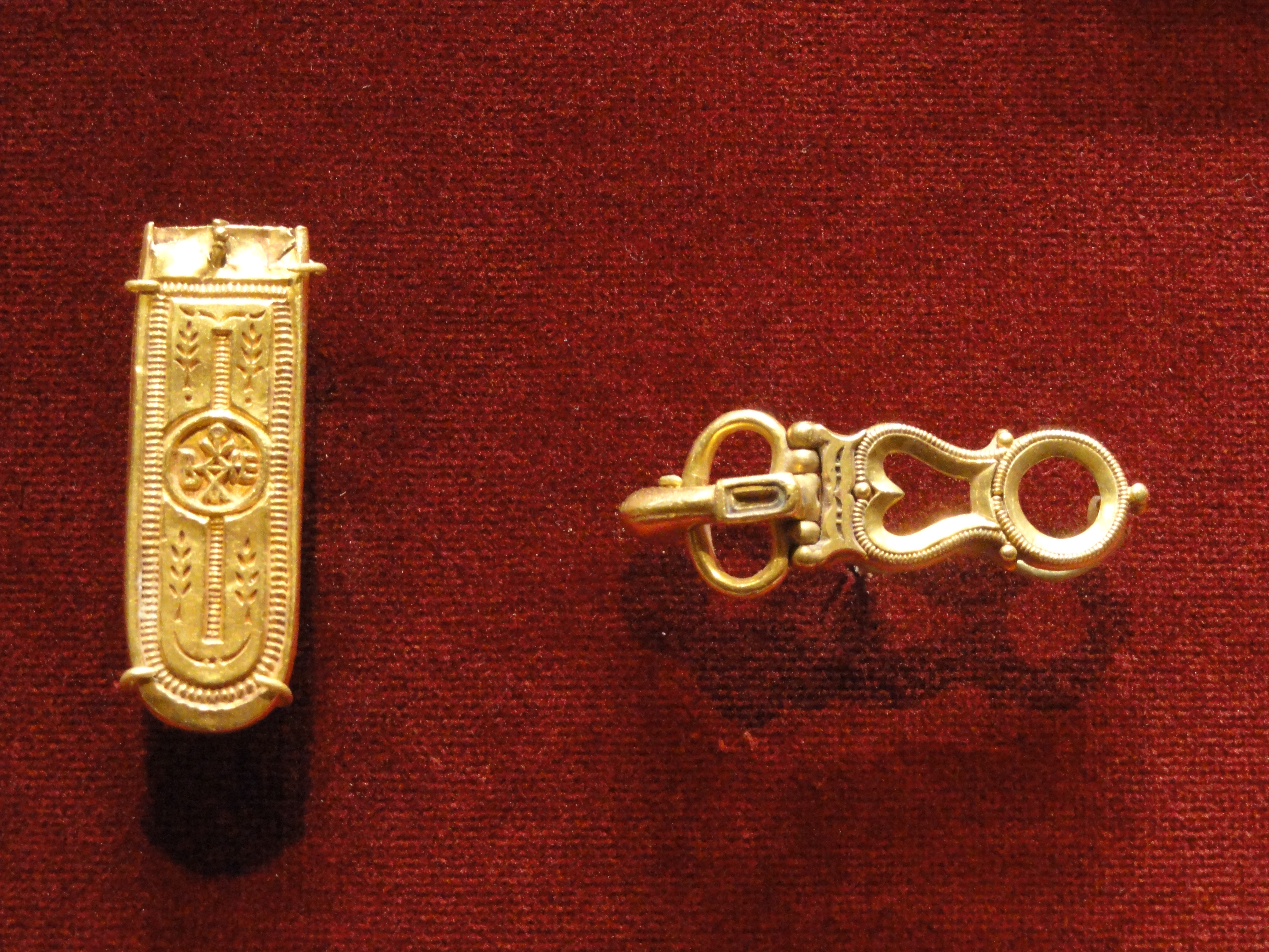 Exhibit in the Cleveland Museum of Art, Cleveland, Ohio, USA. This artwork is old enough so that it is in the public domain.